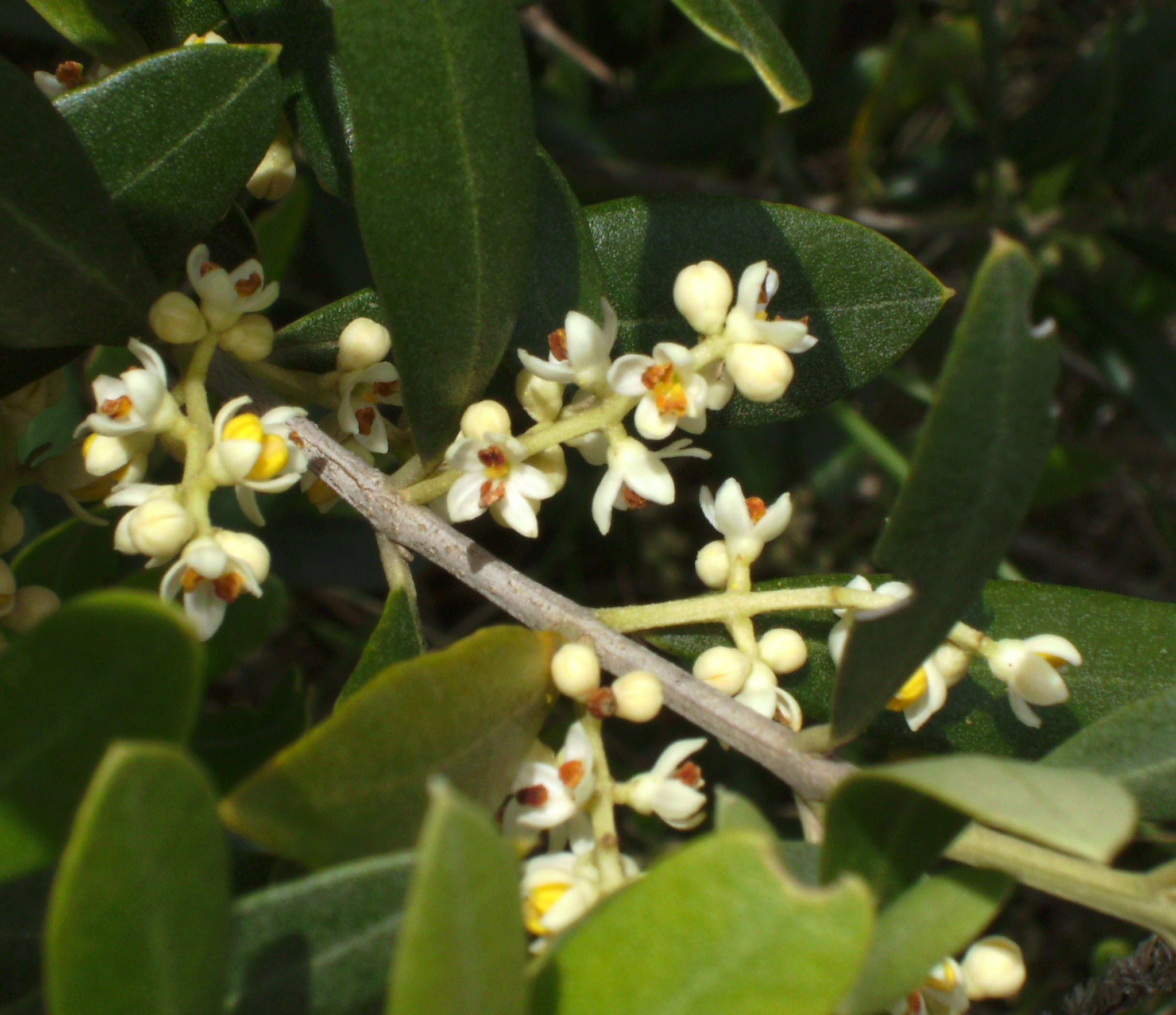 Olive tree flowers, Olea europaea cv Arbequina, Castelltallat, Catalonia